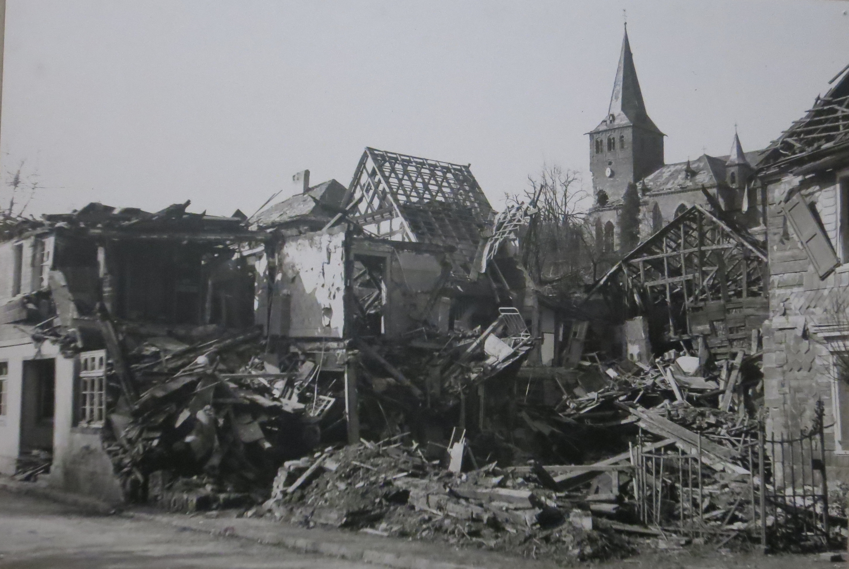 Demolished buildings in Engelskirchen